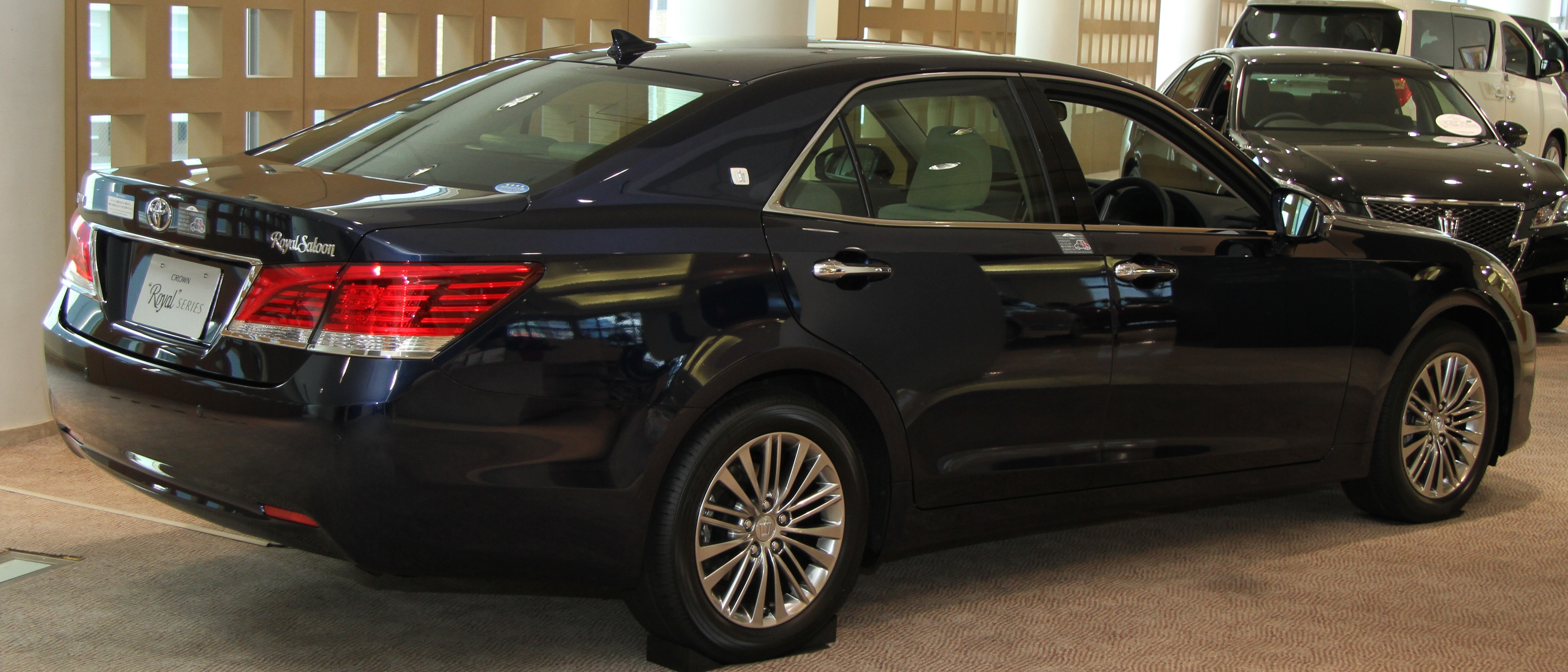 Toyota Crown